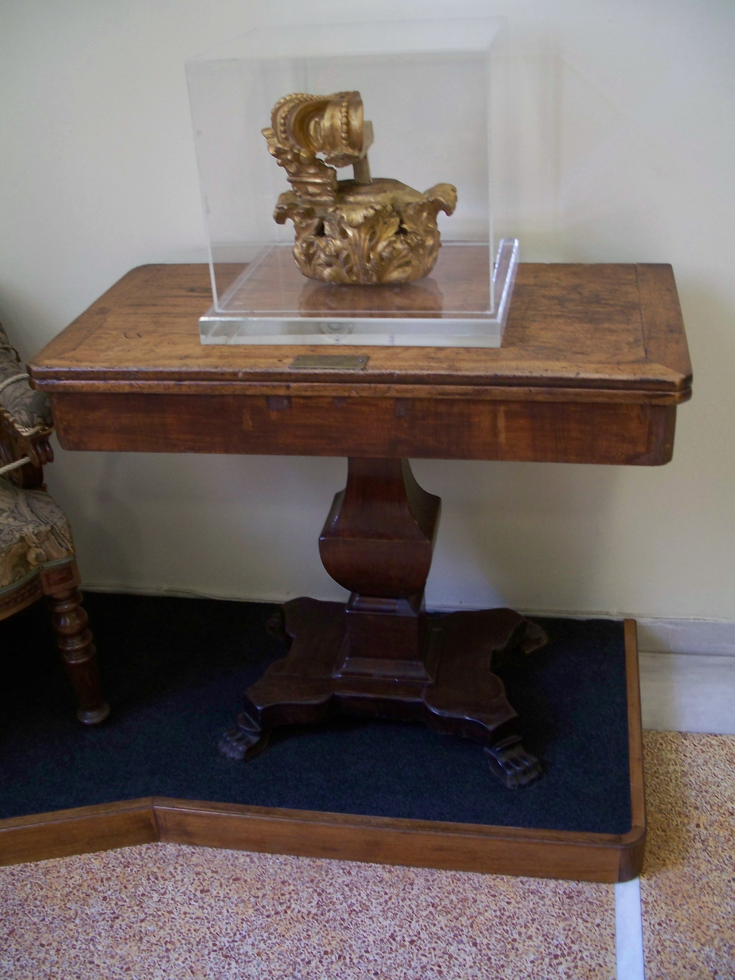 The table on which the expulsion (ousting) of Otto king of Greece was signed, in 1863. His half-smashed crown is on the table. National Historical Museum, Athens, Greece.